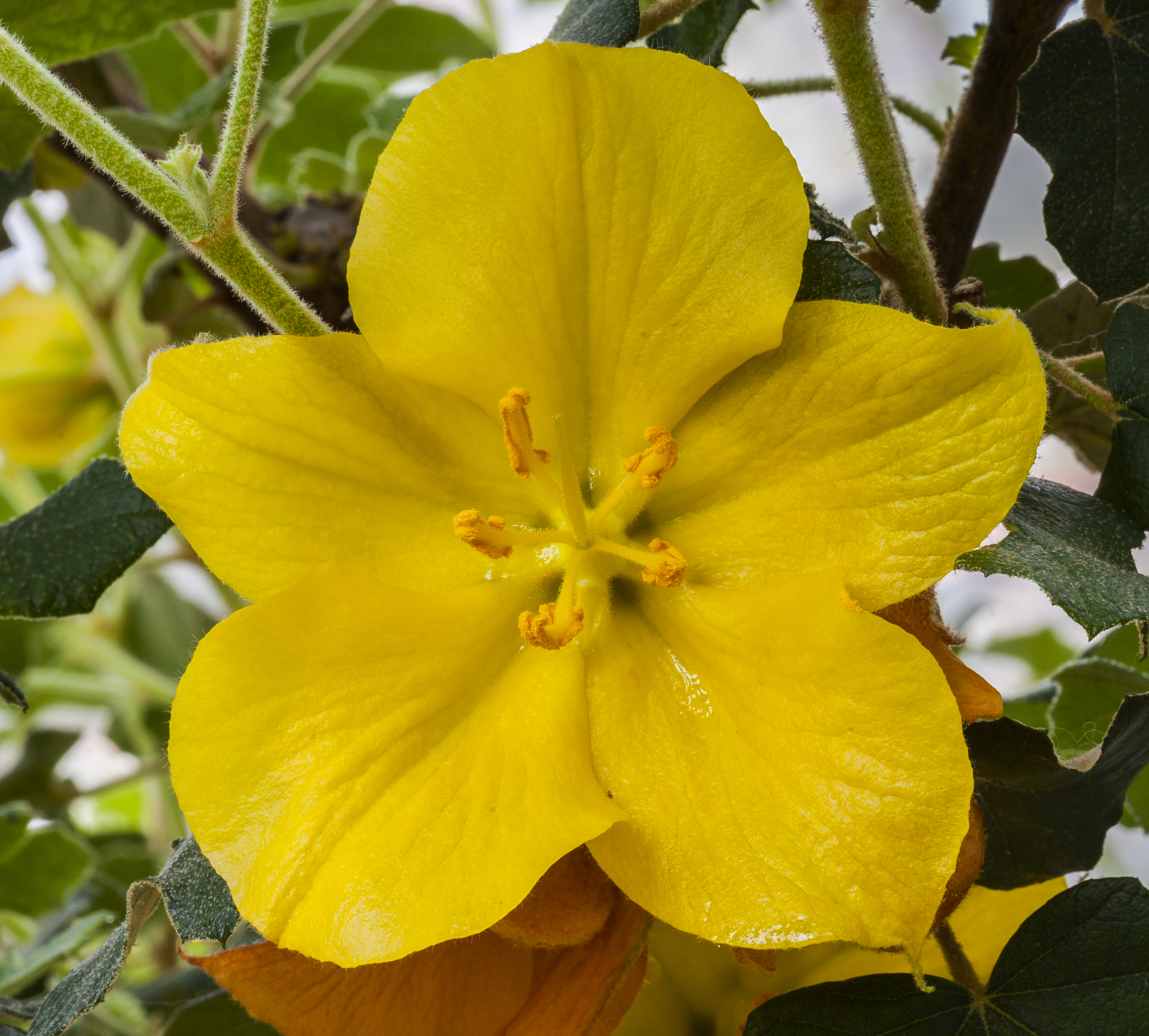 Fremontodendron californicum, Jardín Botánico de Múnich, Alemania